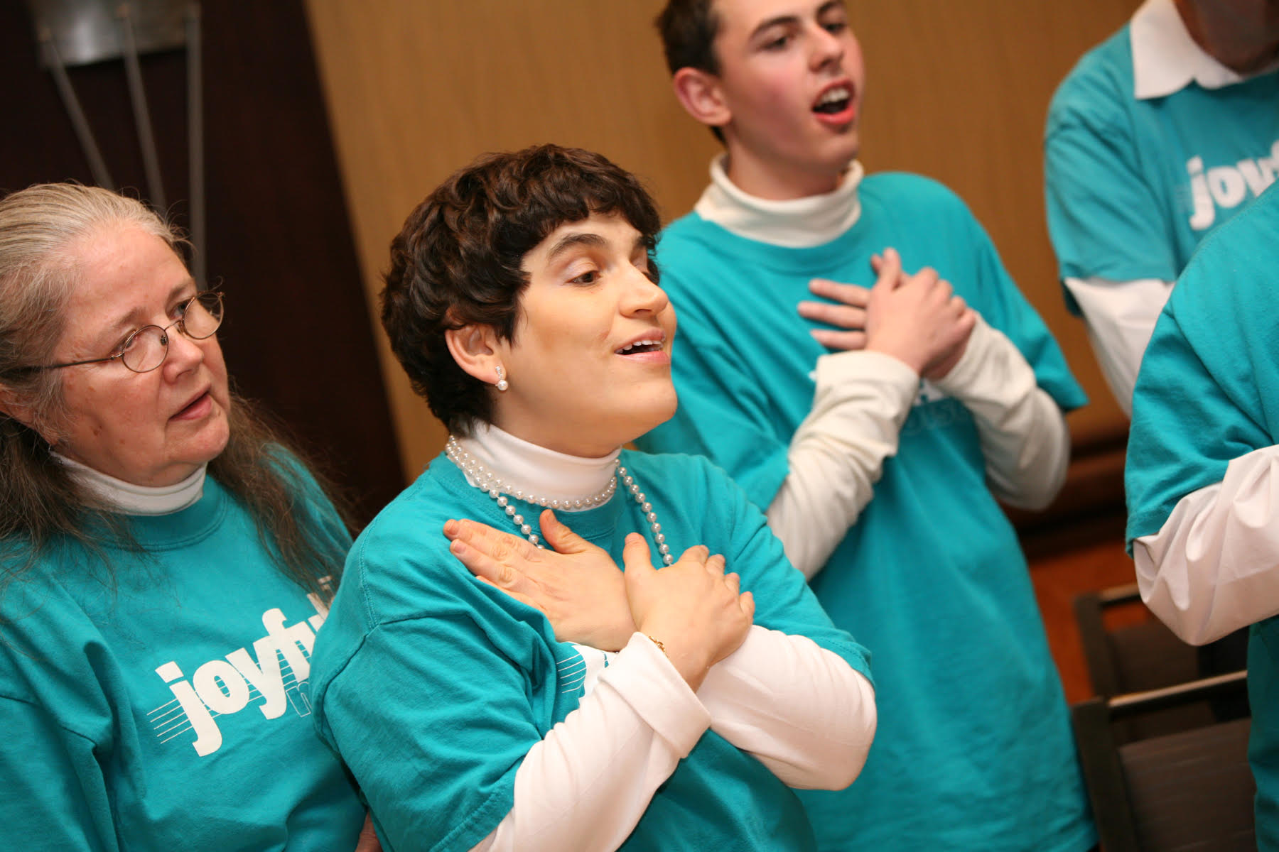 Members of Joyful Noise Chorus work to foster an atmosphere of community, acceptance, and teamwork while discovering their voices and expressing themselves through music.